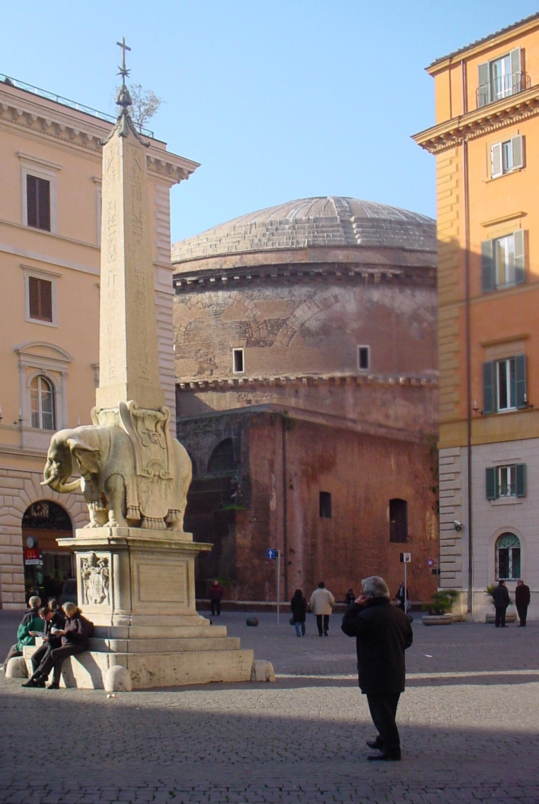 South east view of the Pantheon from Piazza della Minerva